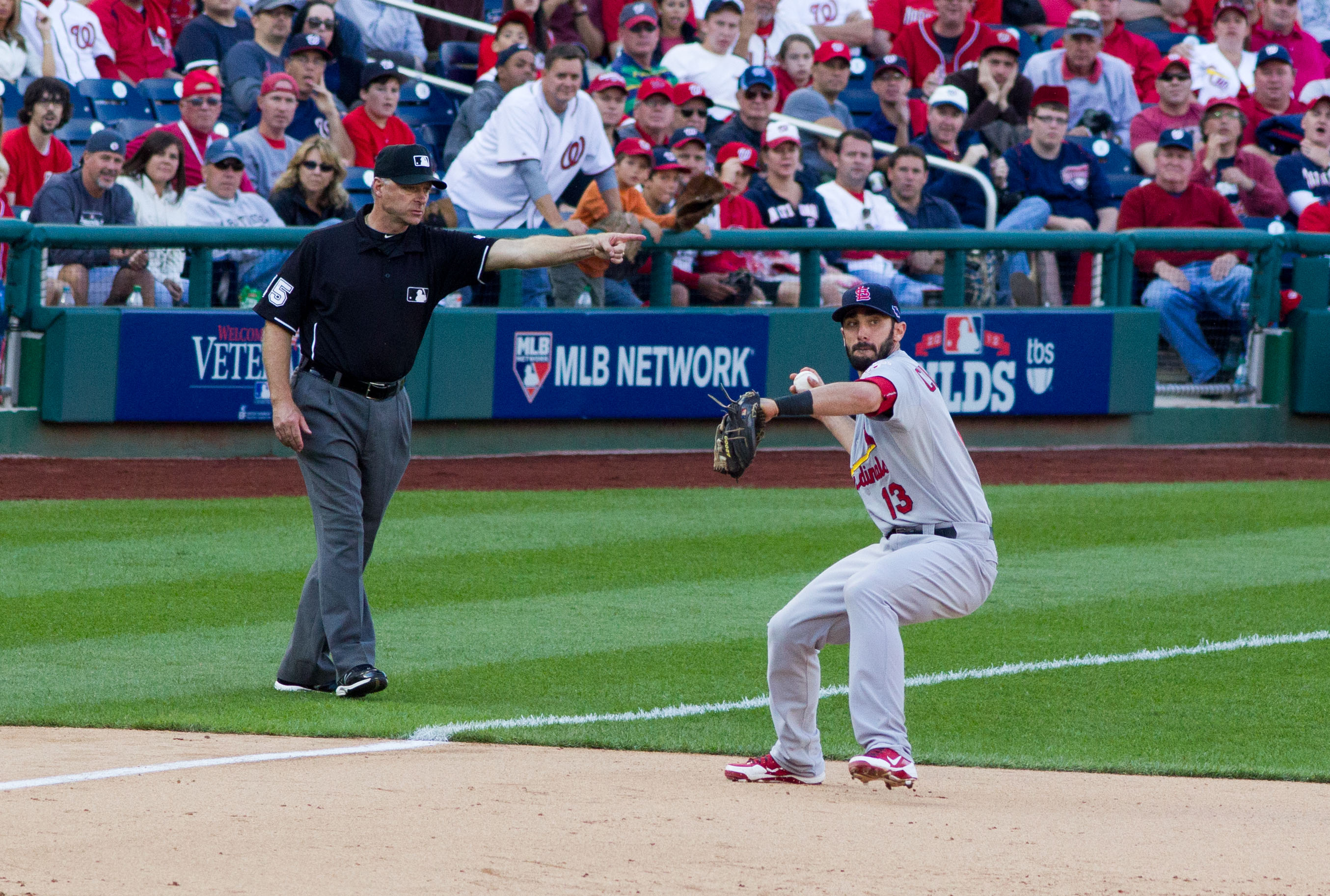 St. Louis Cardinals Third Baseman Matt Carpenter making a throw from third to second base. National League Division Series Game 3, St. Louis at Washington Nationals, October 10, 2012.